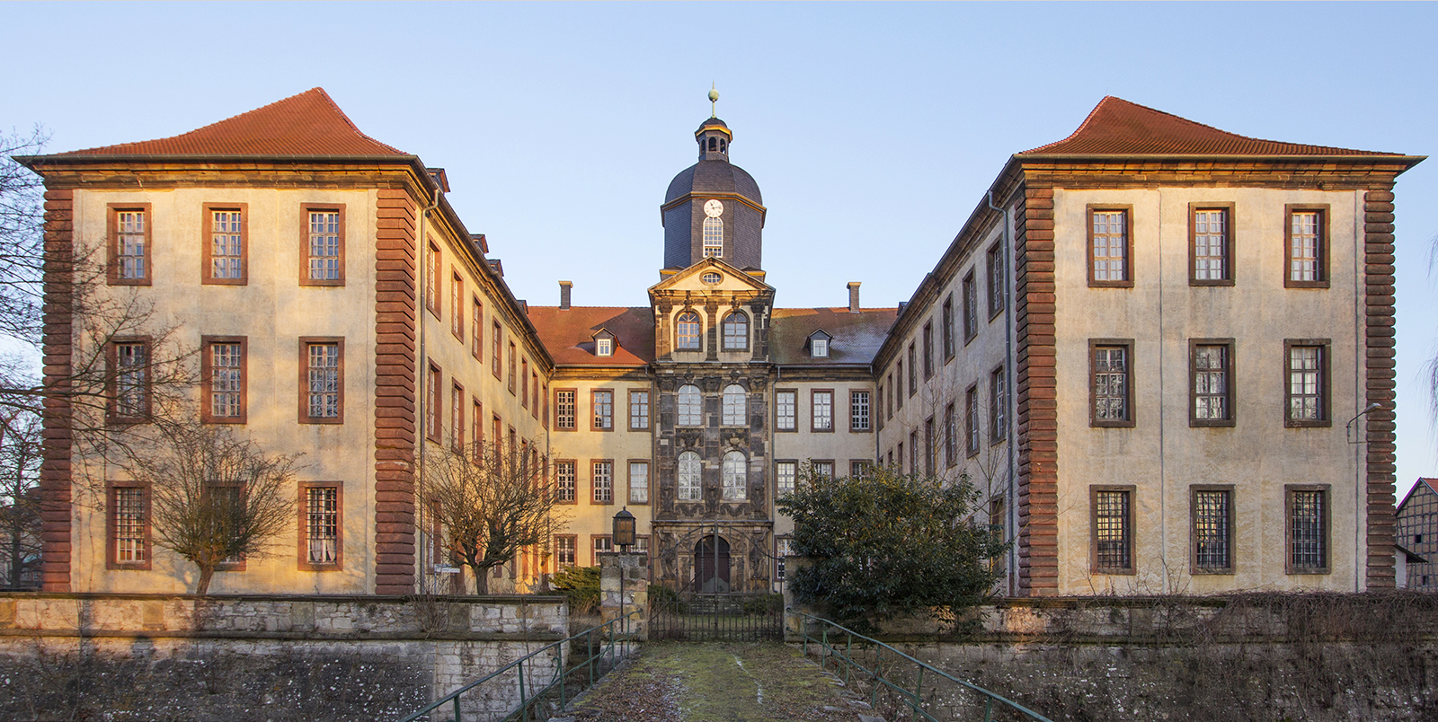 Friedrichswerth, Friedrichswerth palace, west facade with palace courtyard